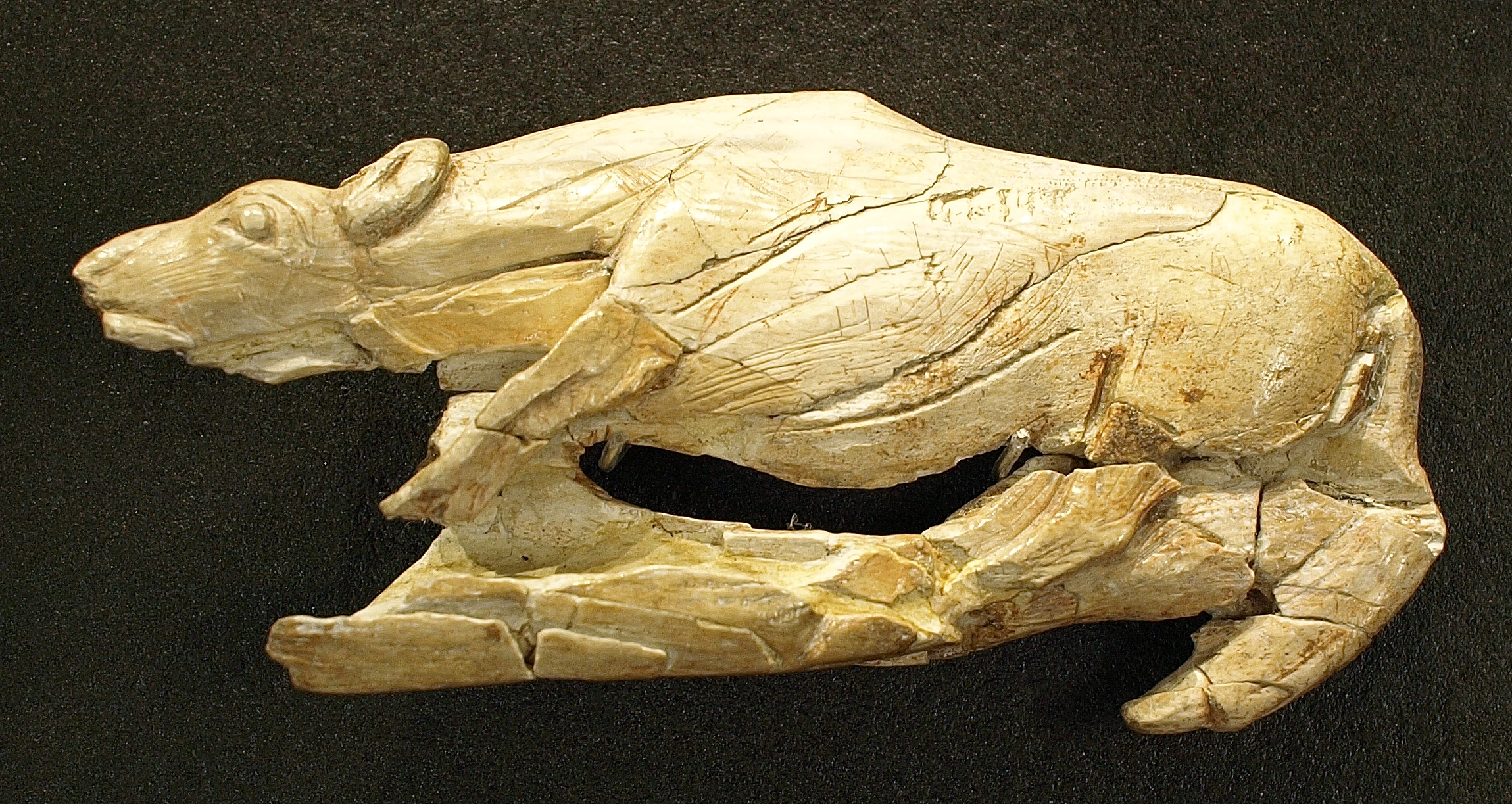 Atlatl "creeping hyena", found in La Madeleine rock shelter in Tursac, Dordogne, Aquitaine, France. 10.7 cm. Magdalenian culture. It can be viewed in the National Prehistory Museum in Les Eyzies-de-Tayac.